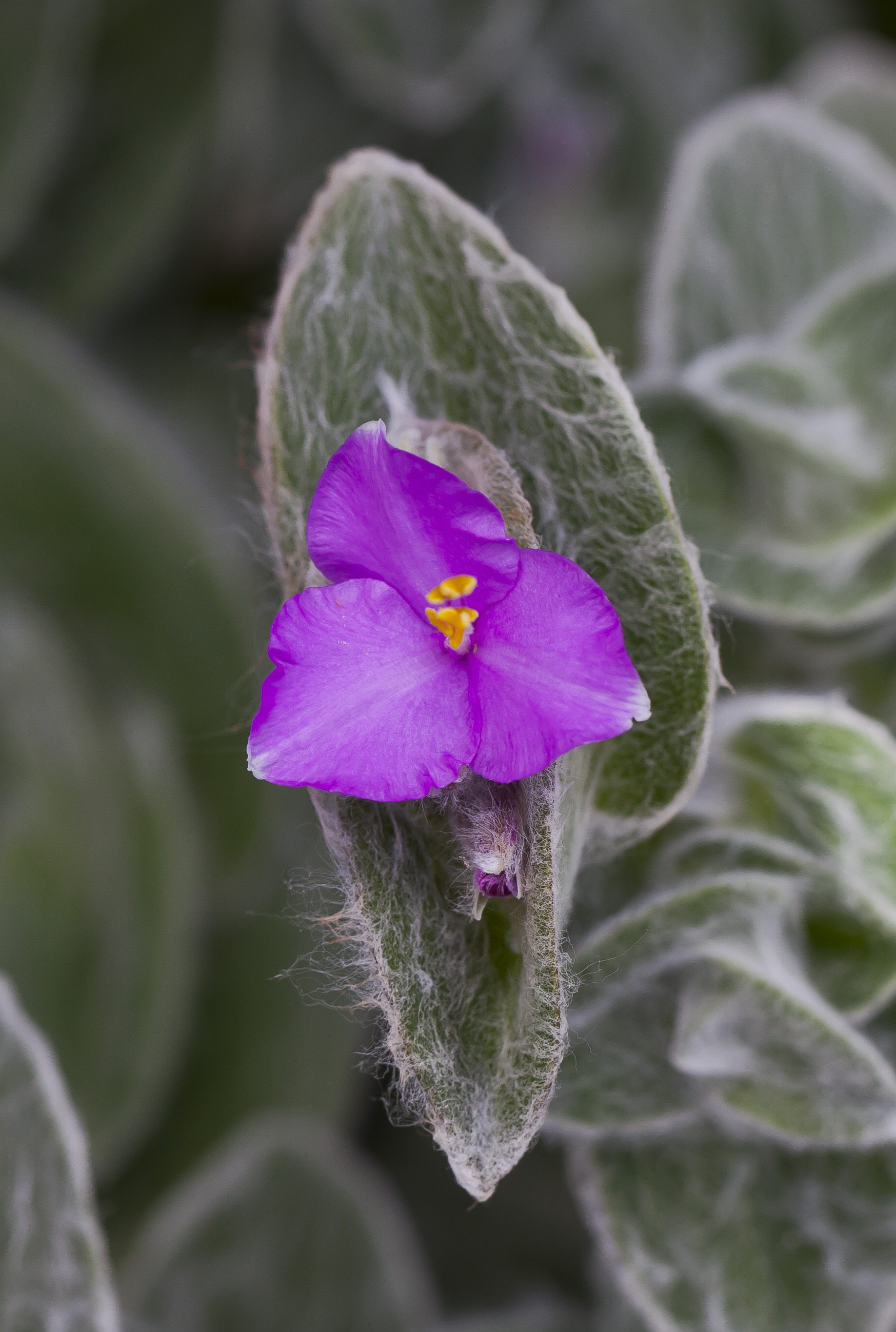 Tradescantia sillamontana, Tallinn Botanic Garden, Estonia